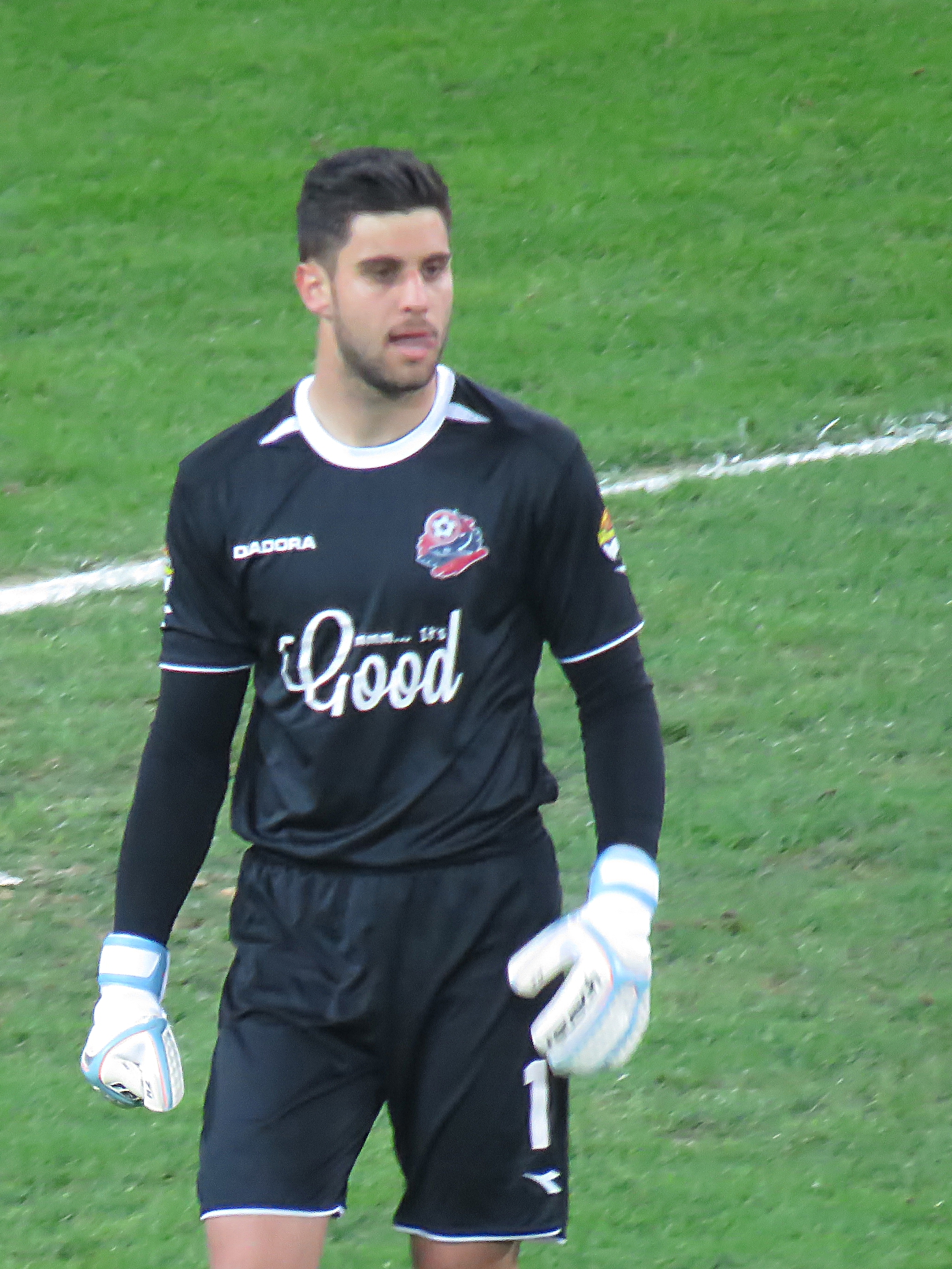 Maccabi Haifa vs. Hapoel Haifa - January 27, 2016